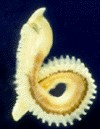 Aspidogastreans Multicalyx elegans